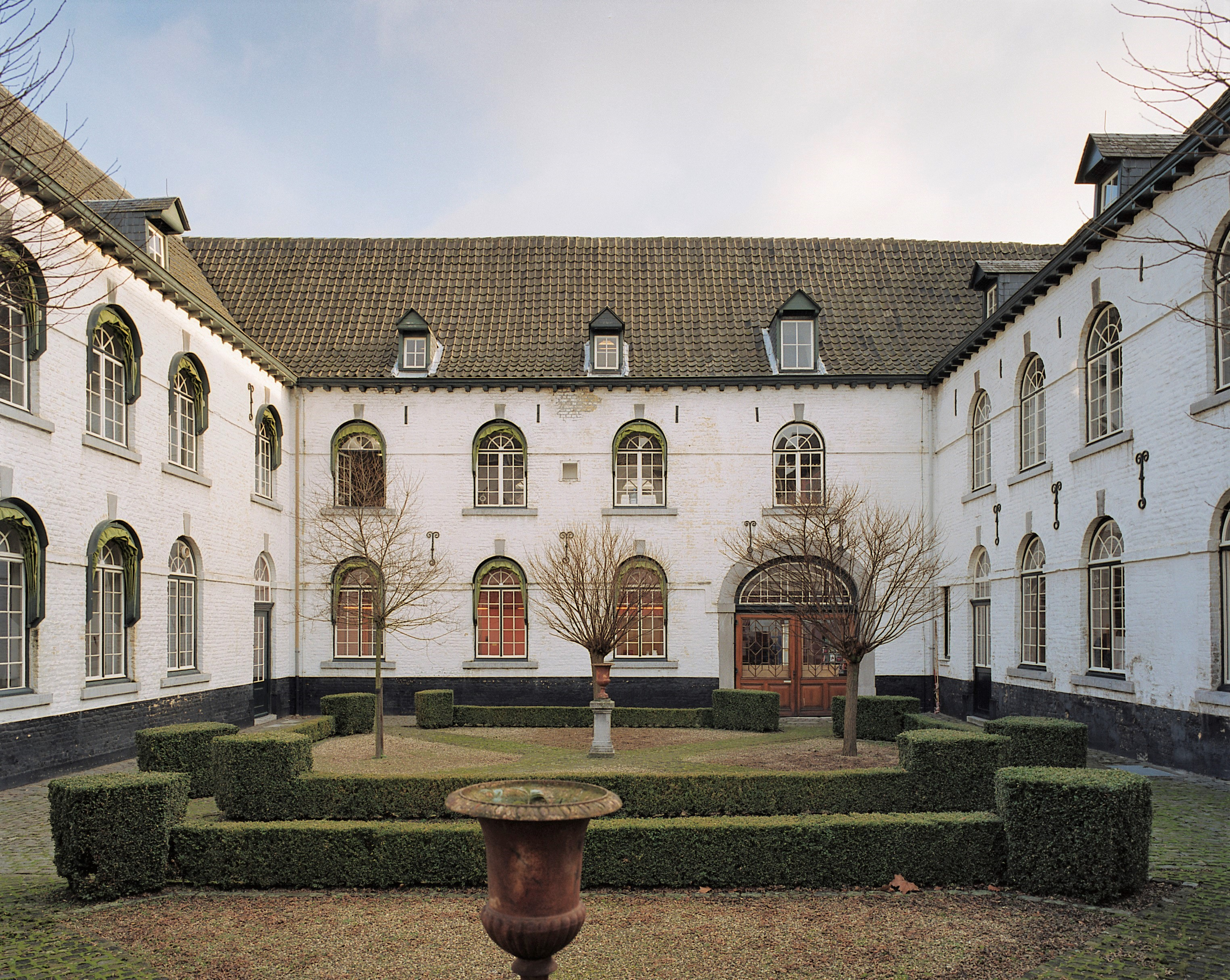 Maastricht University, the Netherlands. Inner courtyard of former Nieuwenhof beguinage, now used by University College Maastricht.